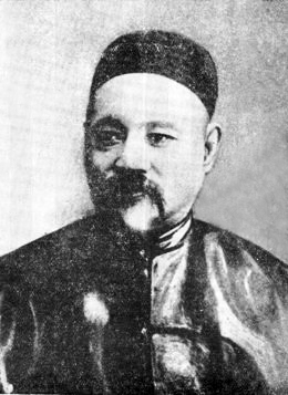 Xue Fucheng (1838－1894)